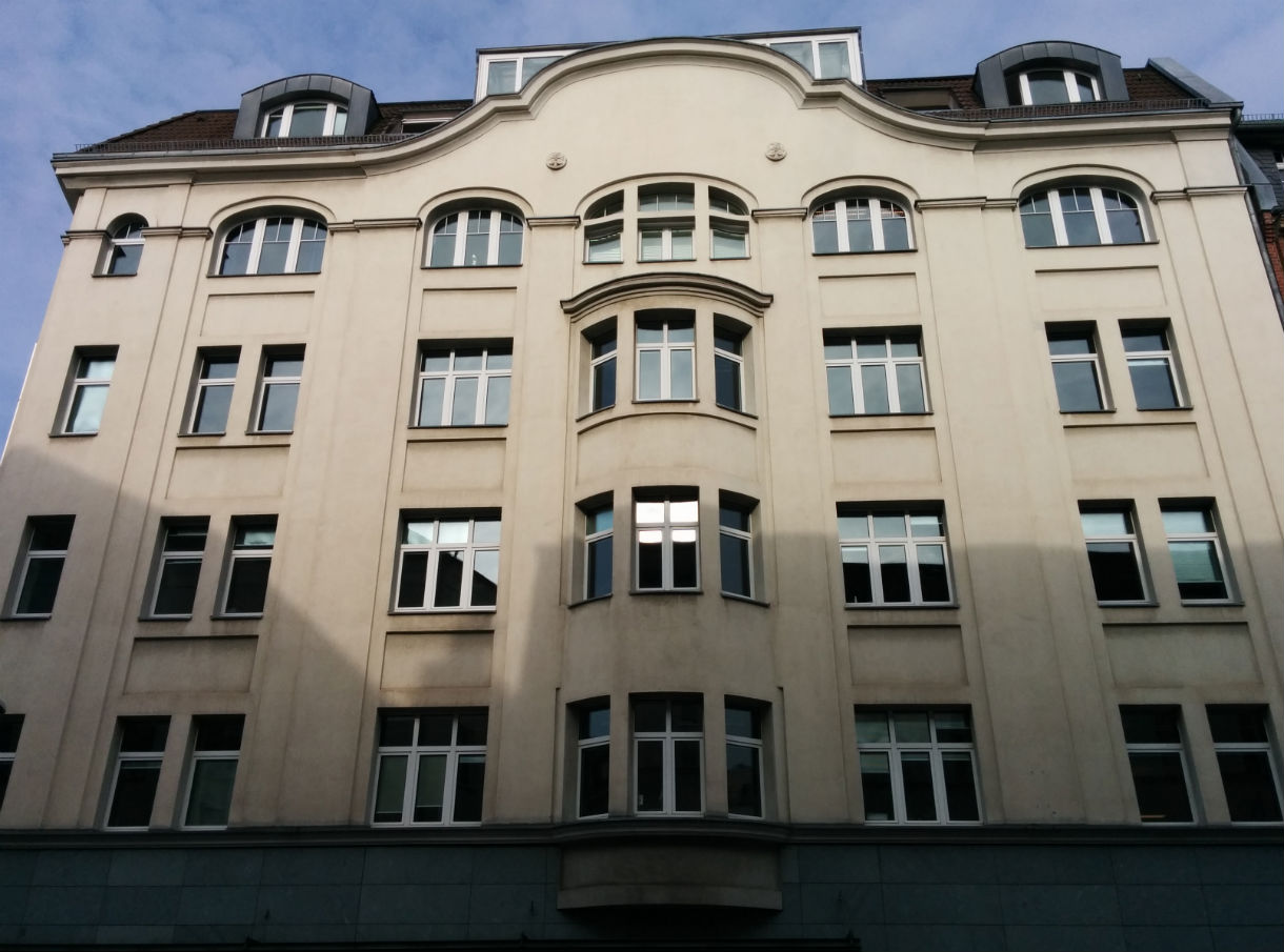 Headquarters of WWF Deutschland at Reinhardtstraße, Berlin